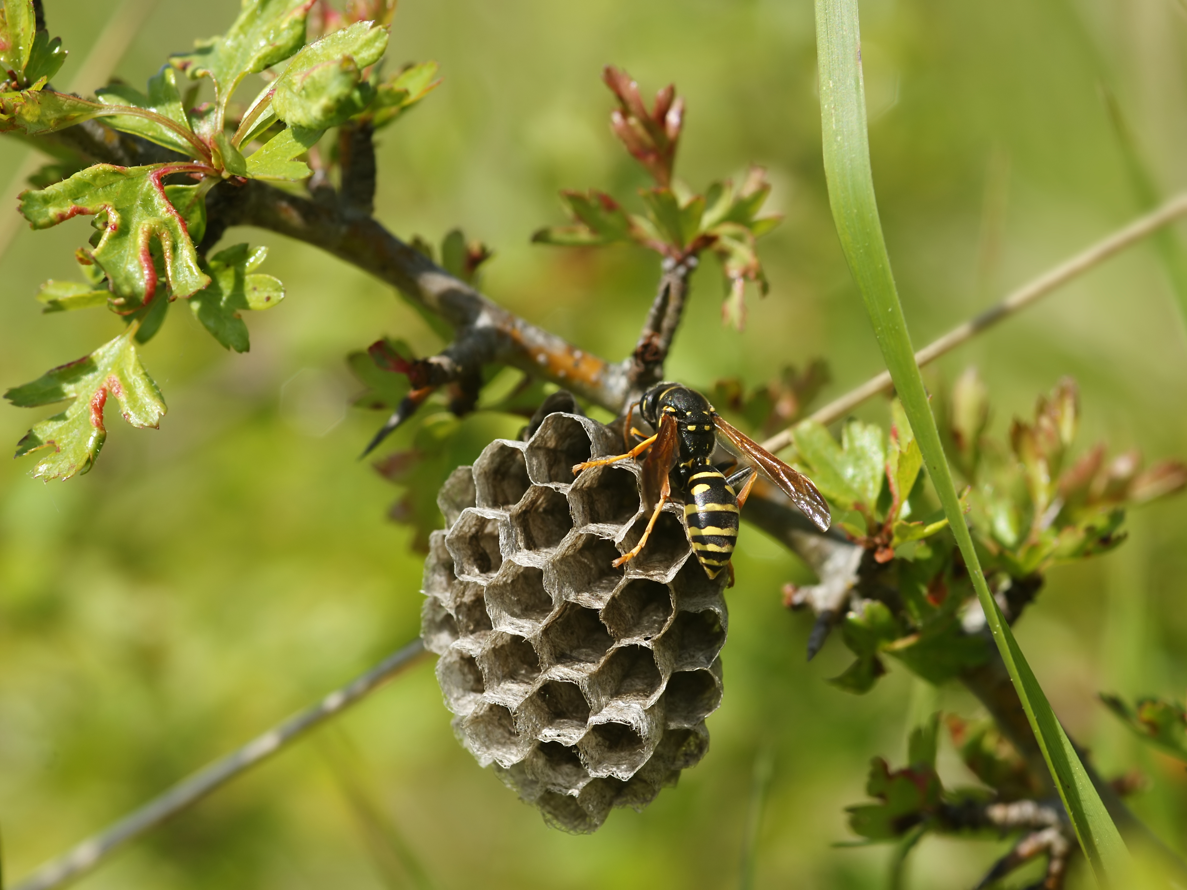 Polistes bischoffi Polistes helveticus, see File:Polistes helveticus distribution.jpg and linked source of distribution